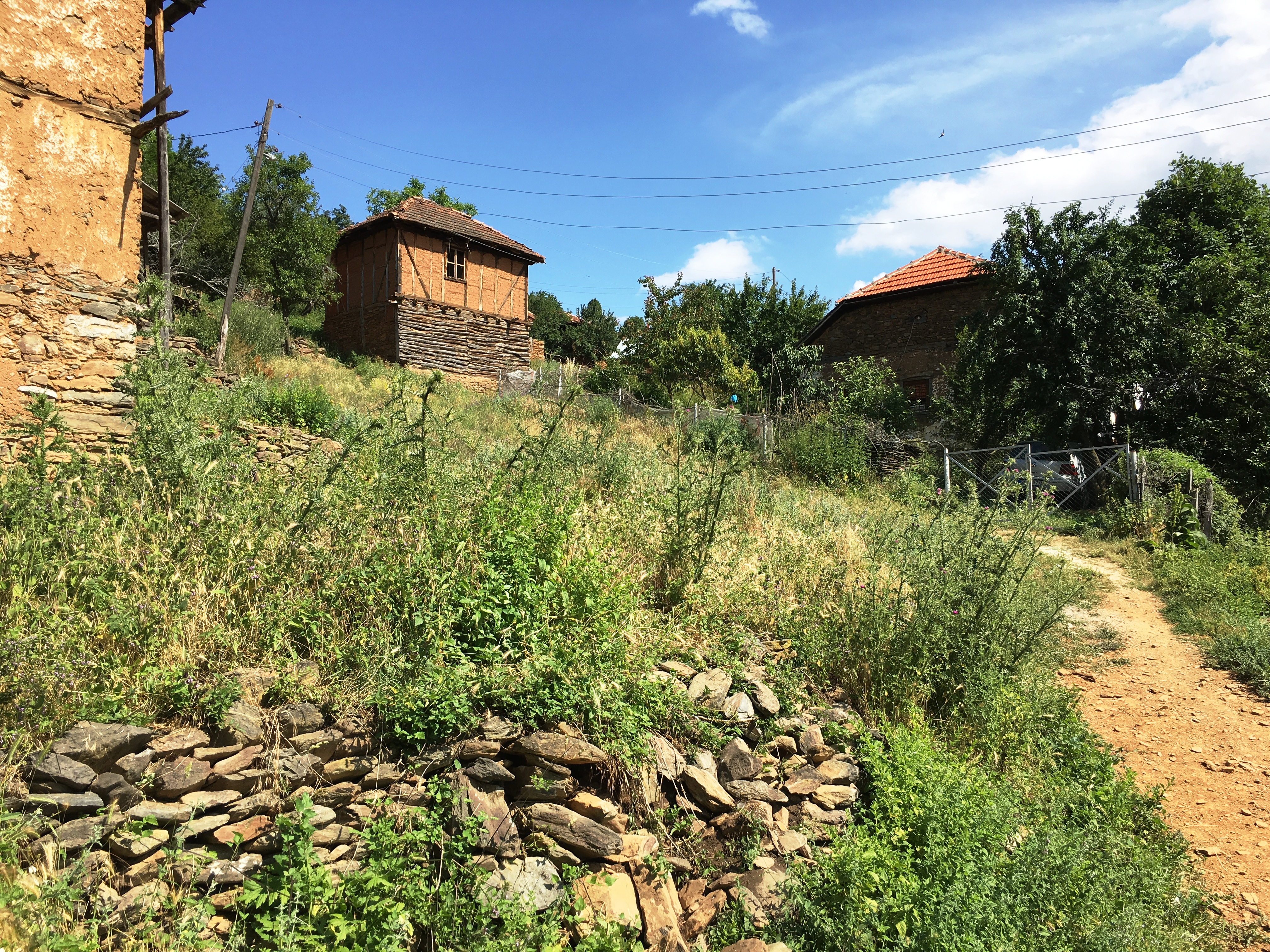 Houses in the village of Kosovo